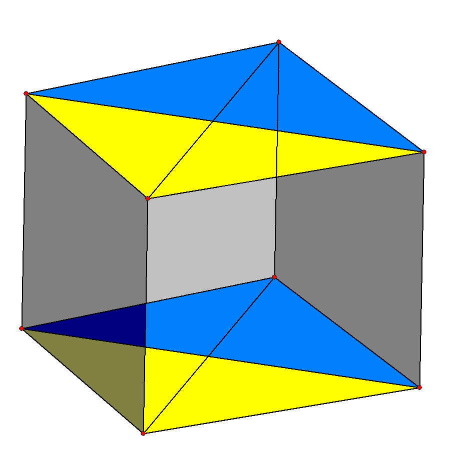 Orthogonal projection of tetrahedral hyperprism. Faces partially colored to help show parallel pairs of tetrahedrons.